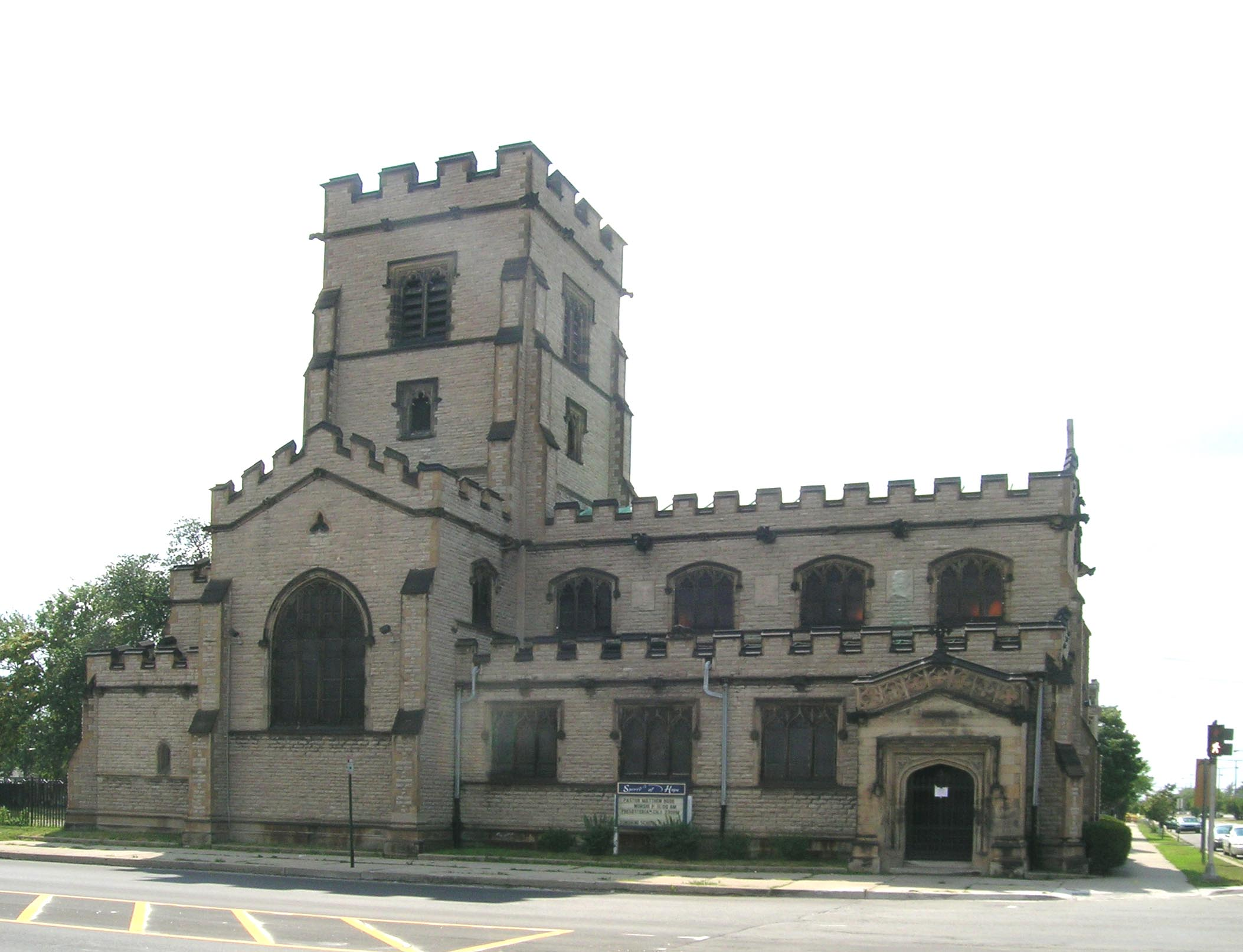 Trinity Episcopal Church (MLK and Trumbull), Detroit MI